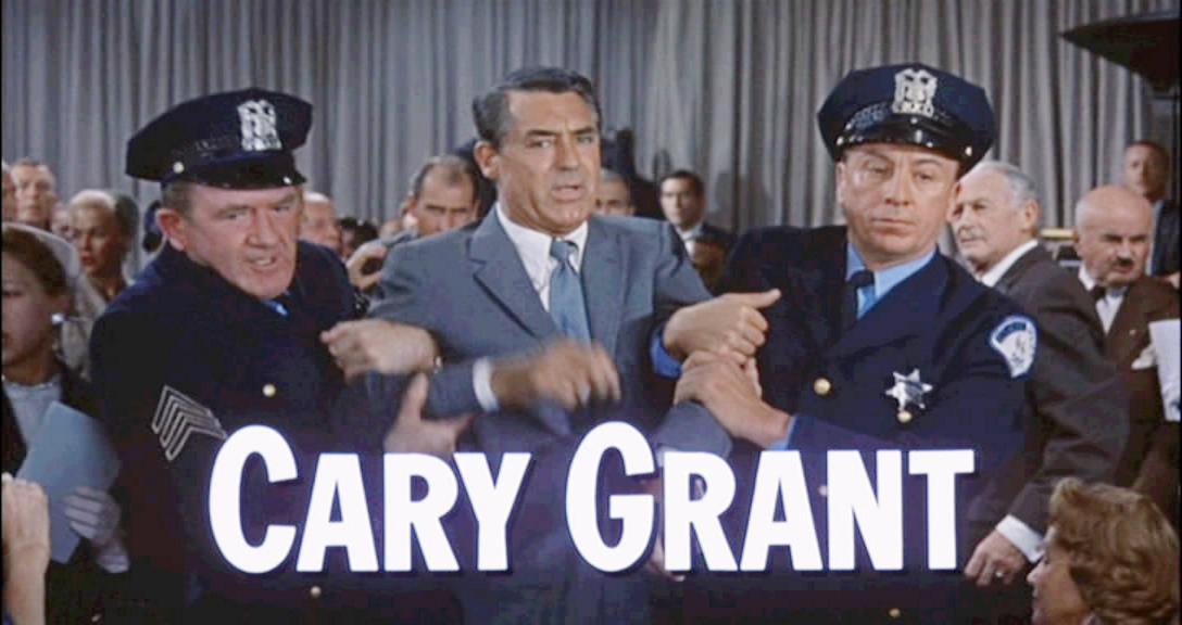 North by Northwest is a 1959 MGM thriller by Alfred Hitchcock. The film stars Cary Grant, Eva Marie Saint, James Mason, Leo G. Carroll, and Martin Landau.